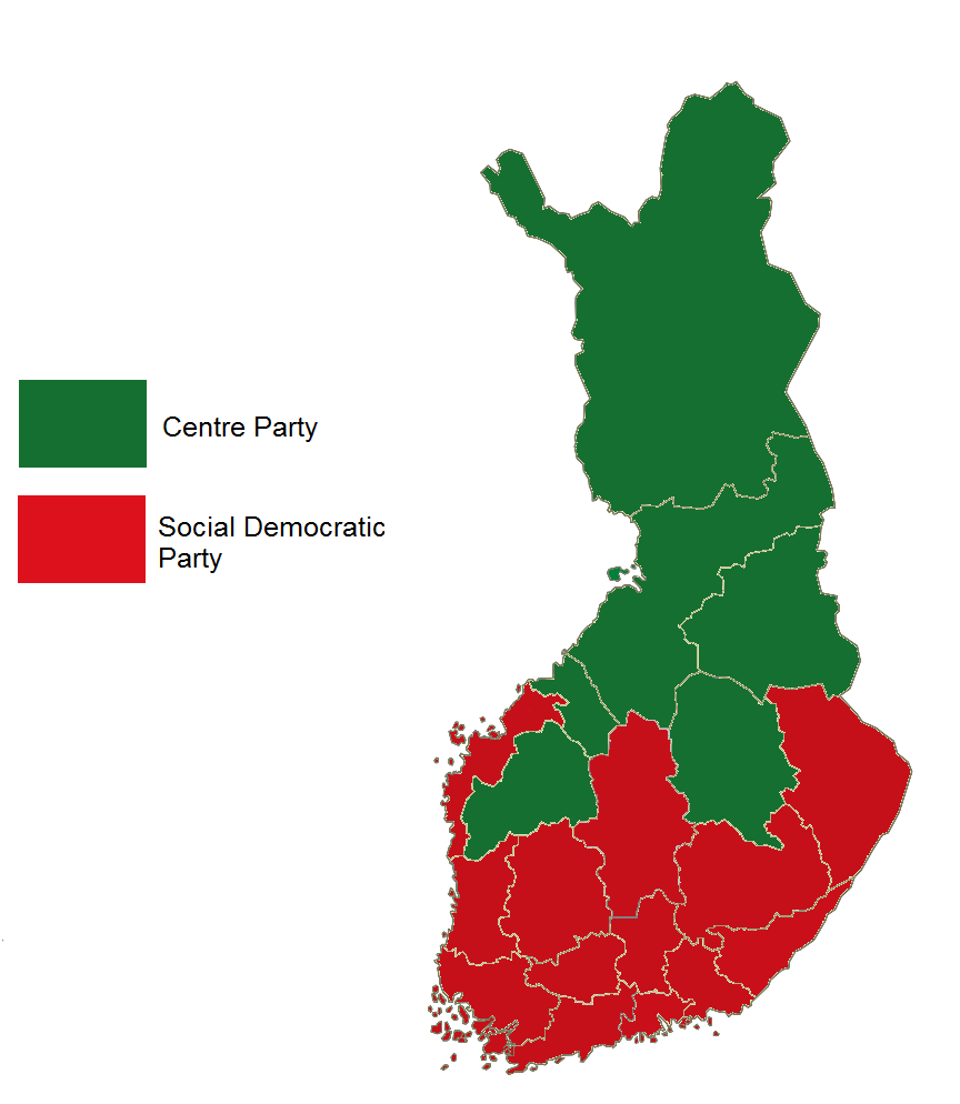 Finnish parliamentary election results by province, 1995